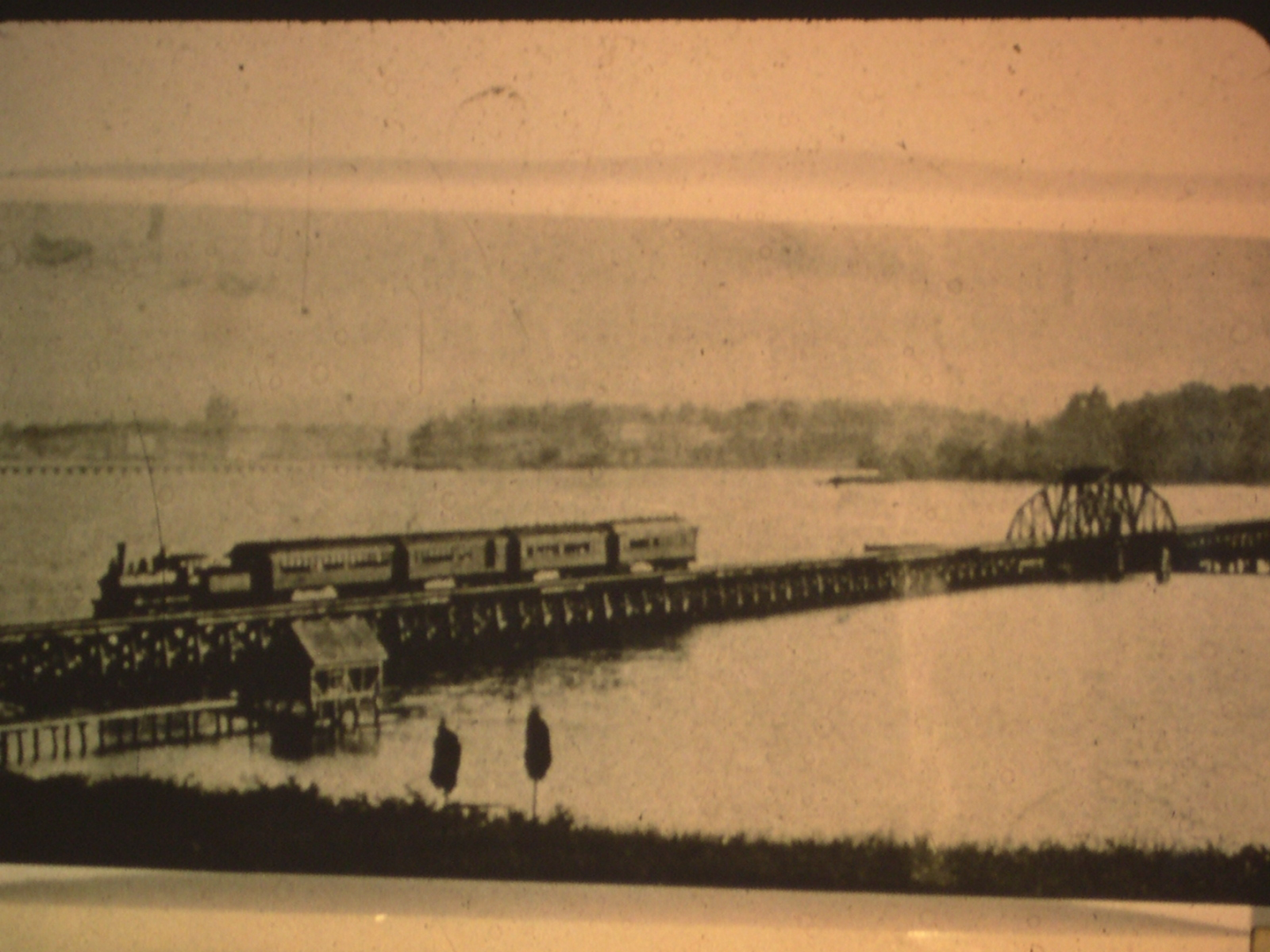 Baltimore and Annapolis Shortline as it crosses the Severn River trestle bridge, note Naval Academy in far upper left. The car bridge is now a fishing pier.